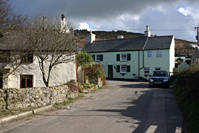 Tregajorran This is a hamlet between Pool and Carn Brea hill, which can be seen rising behind the houses.